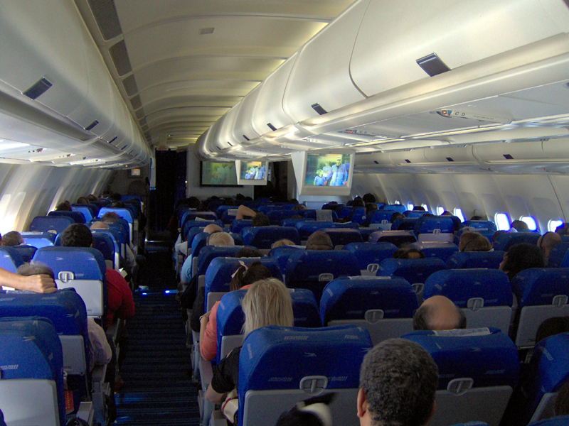 Economy Class cabin onboard an Aerolíneas Argentinas Airbus A340-200, enroute from Auckland to Buenos Aires.